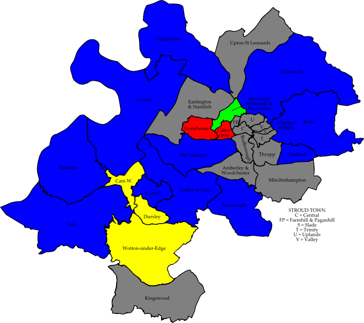 A map of the results of the 2010 Stroud Council election. Colour legend by wards won: Conservative party Liberal Democrats Labour party Green party Wards in grey were not contested in 2010.